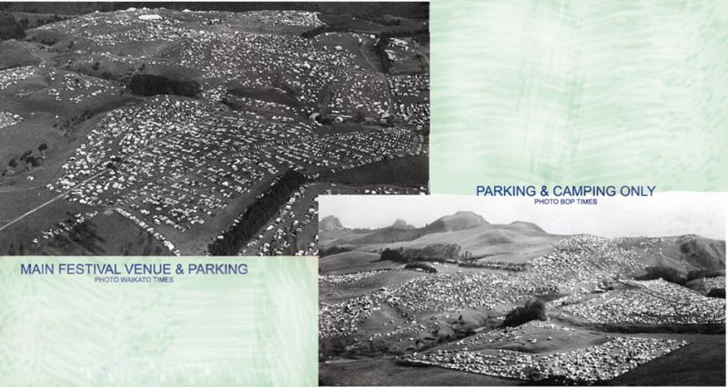 Image (photograph) taken by Official Nambassa Photographer and uploaded by User: Mombas 23:26, 4 May 2007 (UTC), Nambassa dot com Terms of Use: 1/ All users of this image are required to attribute this work to "Nambassa Trust and Peter Terry" and the url: " " is to accompany all use. 2/ Attribution. You must attribute the work in the manner specified by the author or licensor. 3/ For any reuse or distribution, you must make clear to others the license terms of this work. Statement by Nambassa Trust and Peter Terry